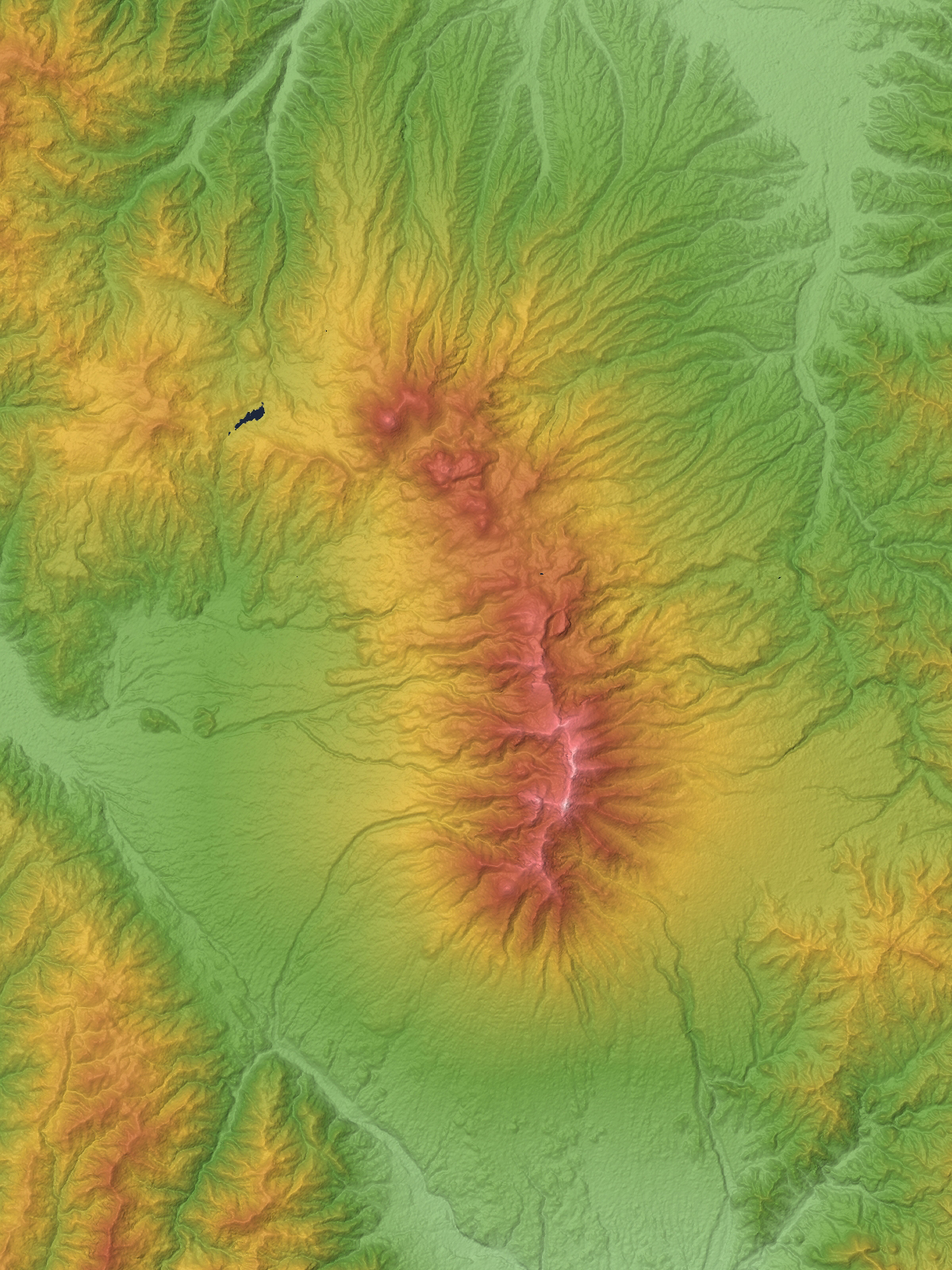 Yatsugatake Volcanic Chain in Nagano Prefecture, Honshu, Japan. This file updated by 30m Mesh.